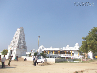 Sree Venkateswara Swamy Ananda Temple